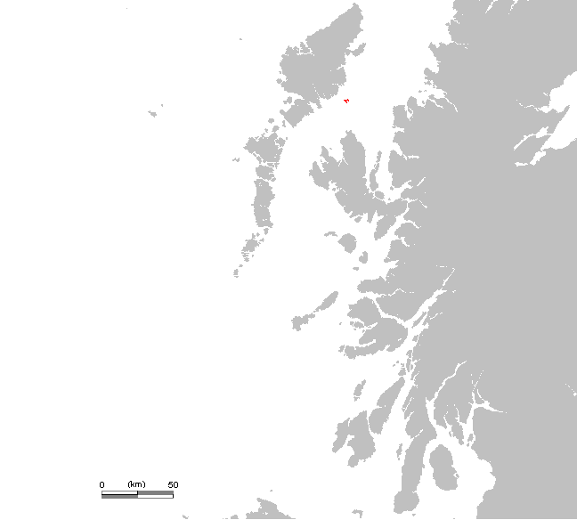 UK Shiant.PNG (Scotland, Hebrides)